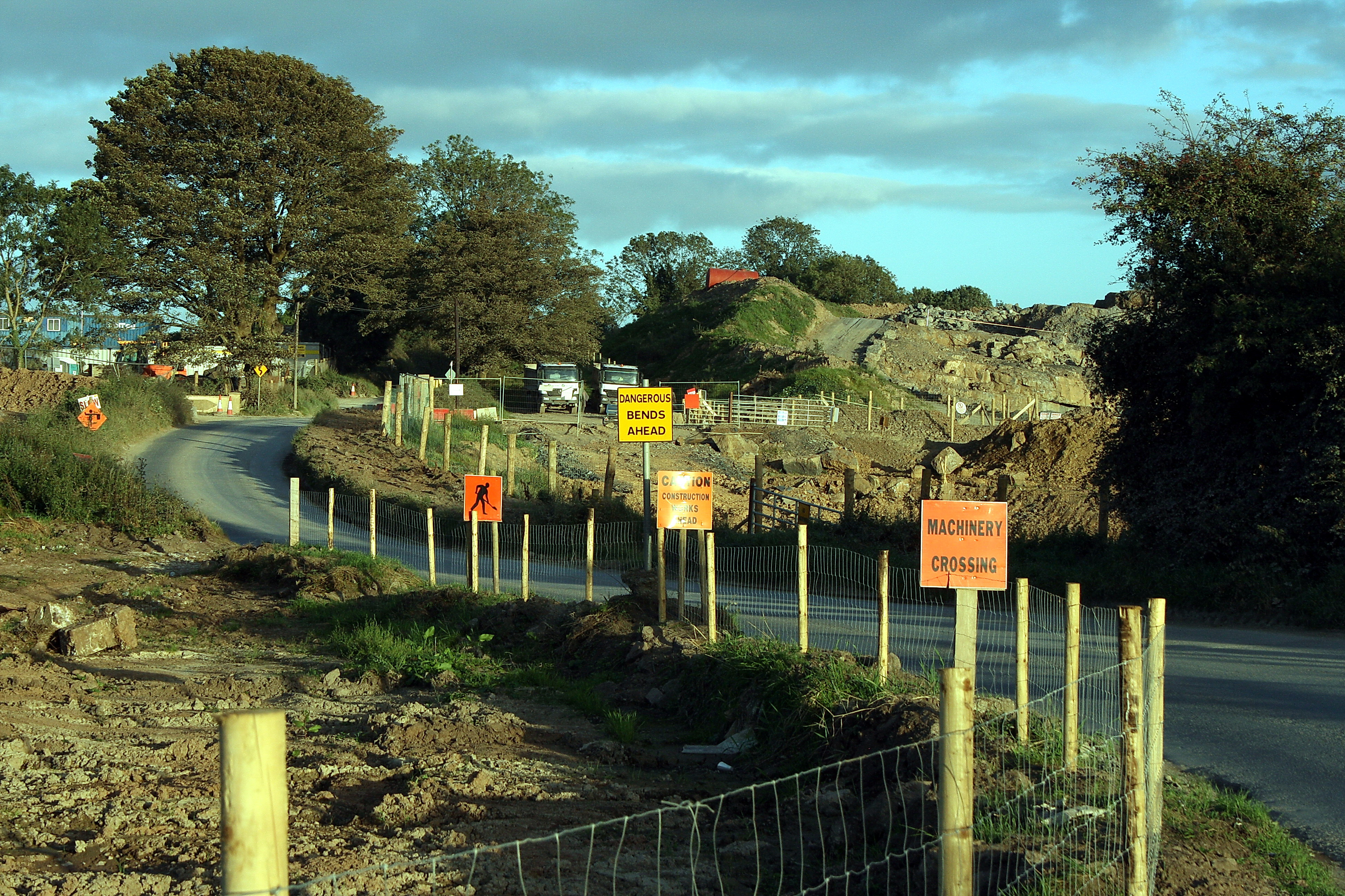 R504 in County Tipperary winding through construction works of the new M7 Limerick-Nenagh motorway. (September 2007)